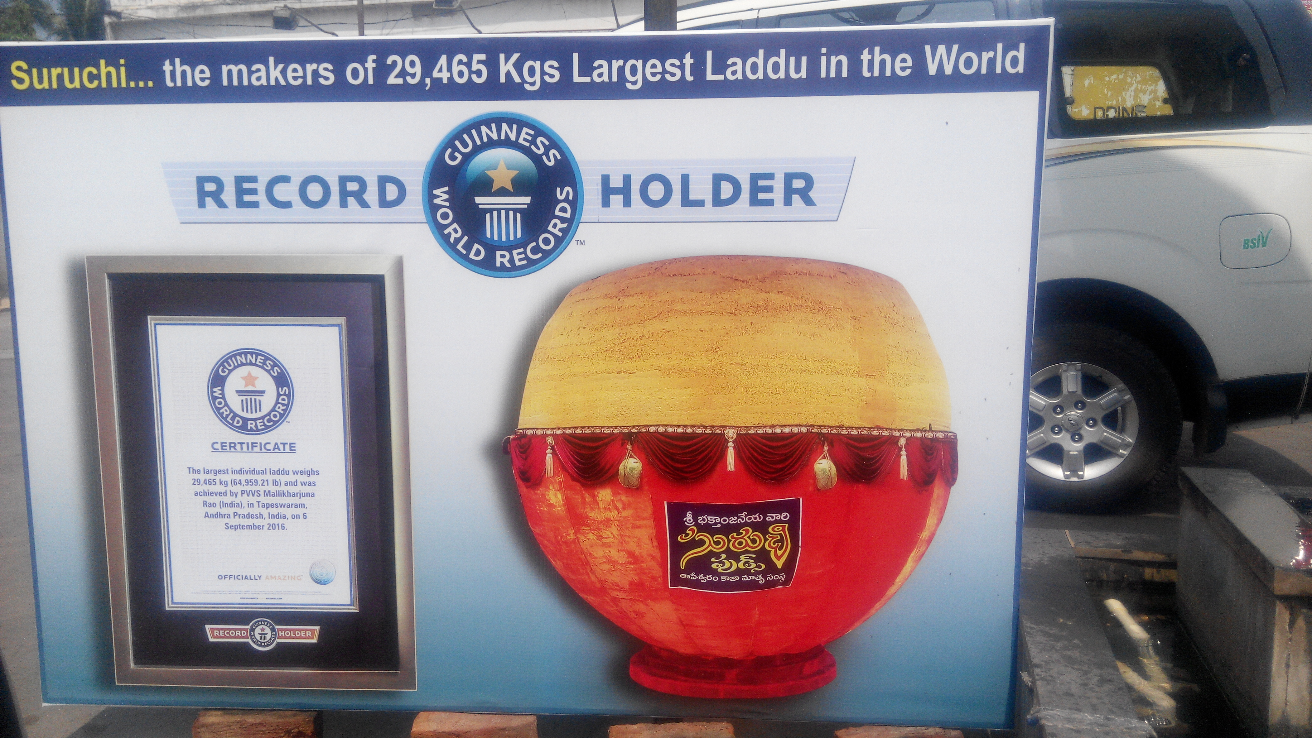 The largest individual Laddu weighs 29,465 kg. Tapeswaram, Andhra Pradesh, India